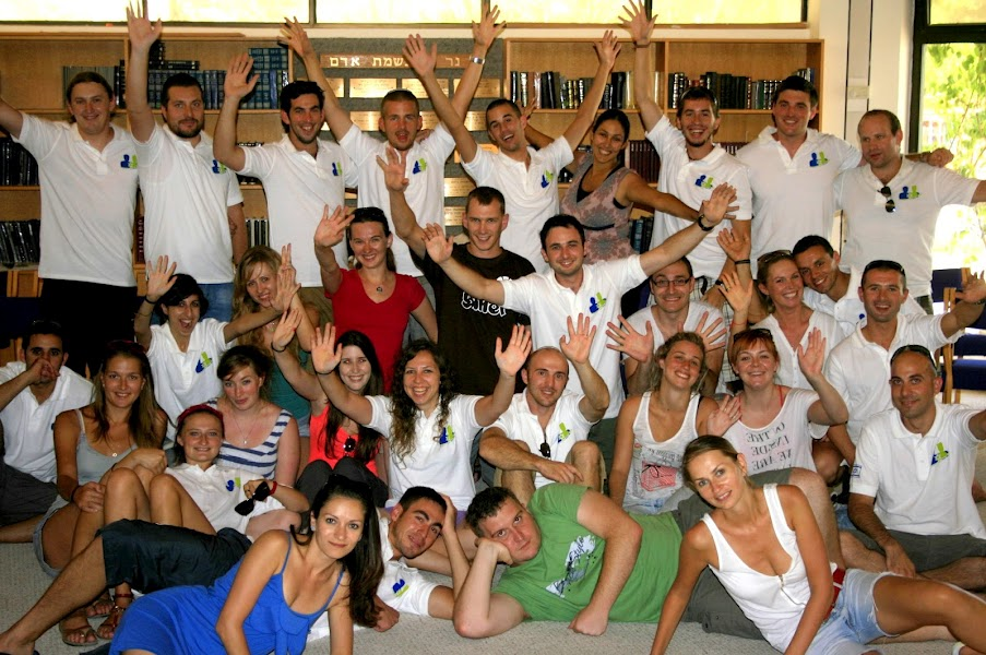 mitnadvim